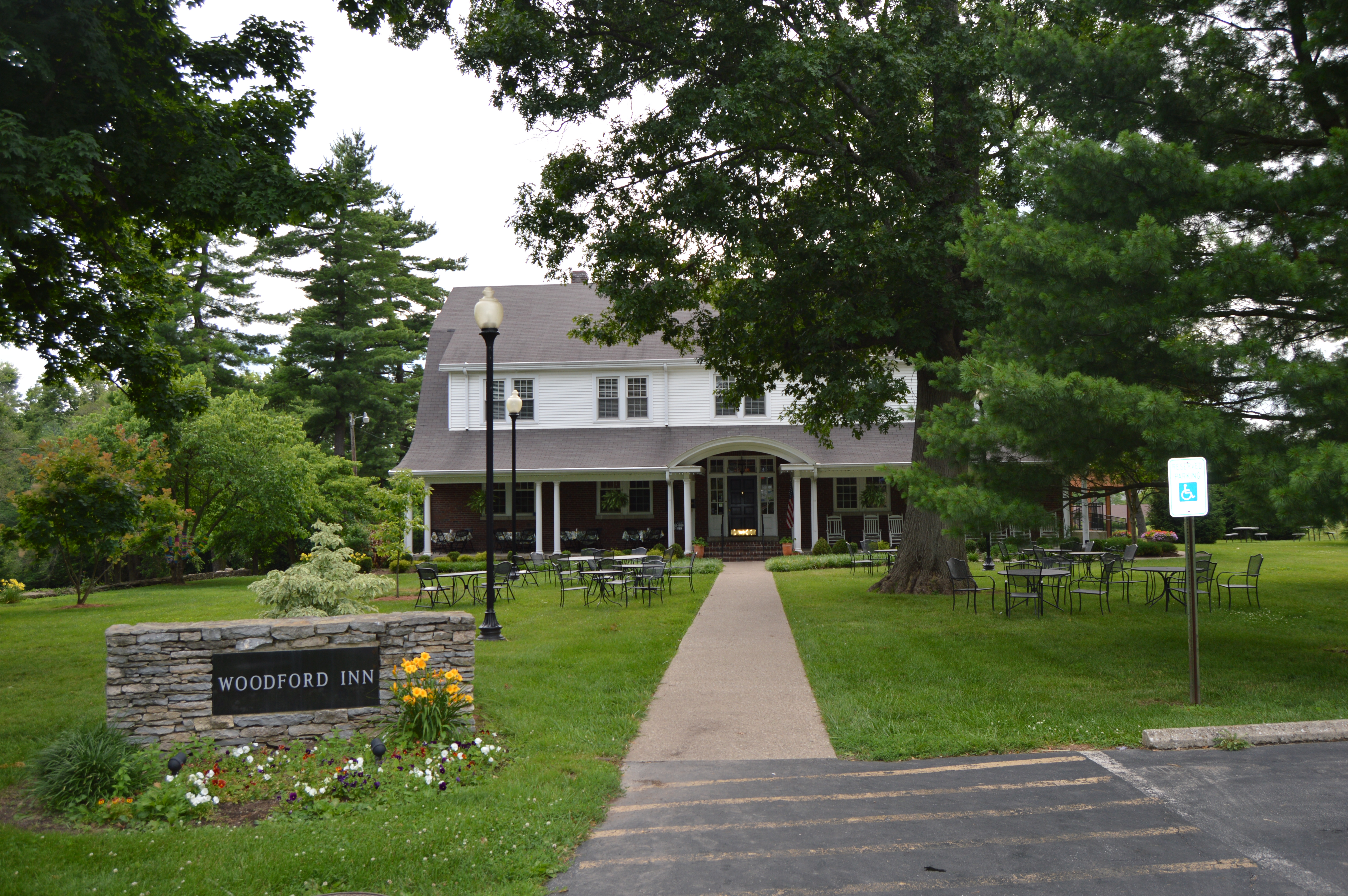 Front of Cleveland House, the Woodford Inn, located at 140 Park Street in Versailles, Kentucky, United States. Built in 1927, it is listed on the National Register of Historic Places.